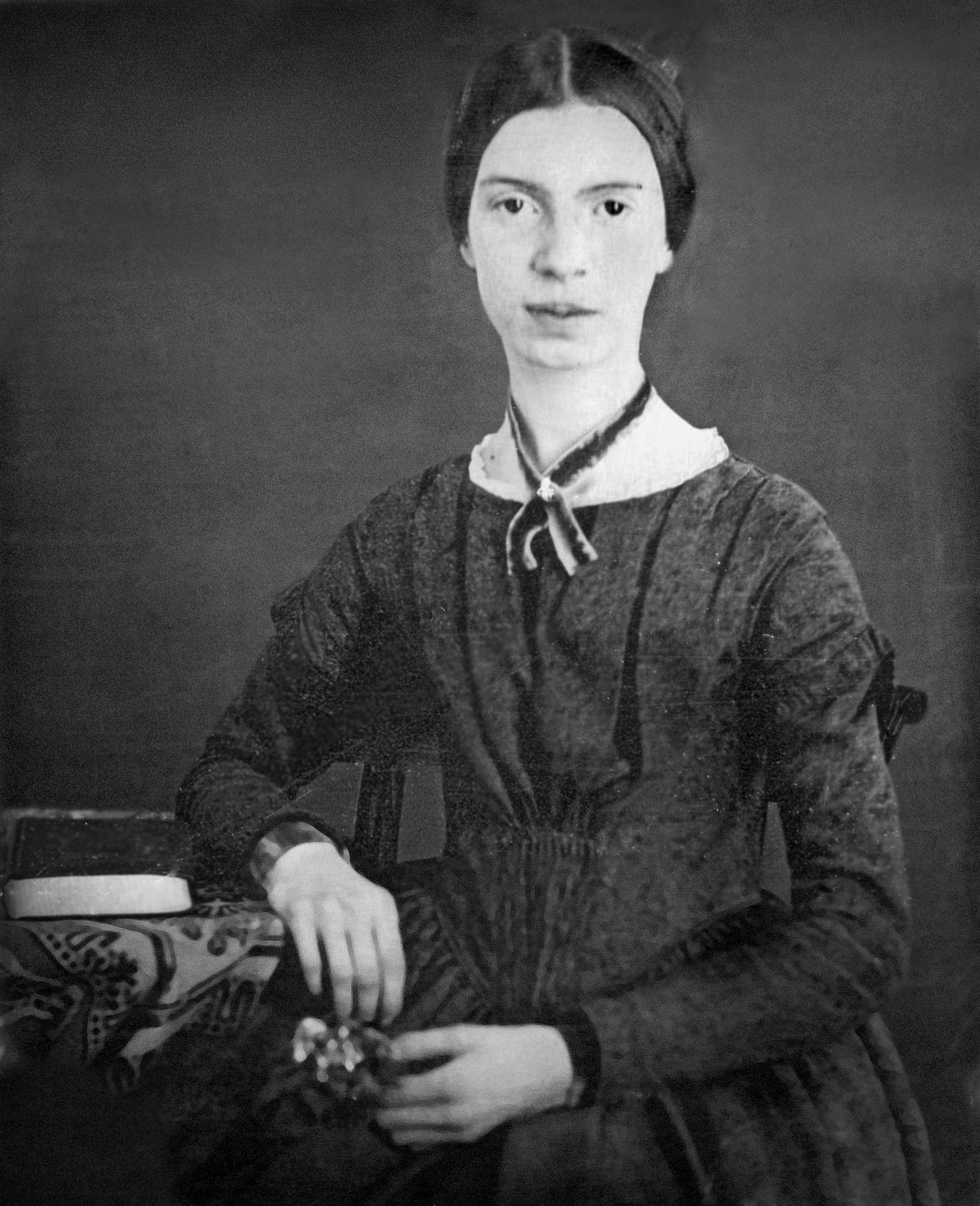 Digitally restored black and white daguerrotype of Emily Dickinson, c. early 1847